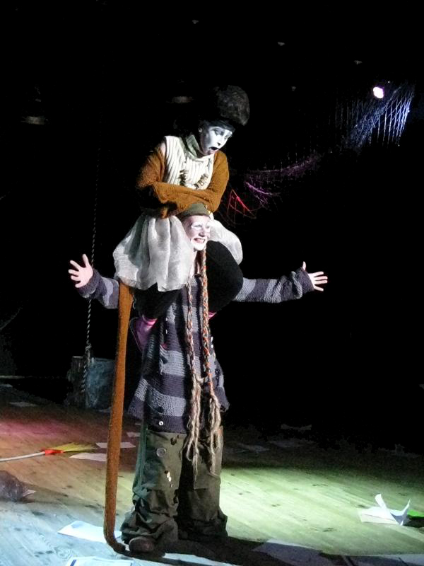 Nebolshoy Teatr, Ulyanovsk, Russia - scene from "Crime, Domestic Help, Punishment, Money and Murder" by Mattias Andersson.